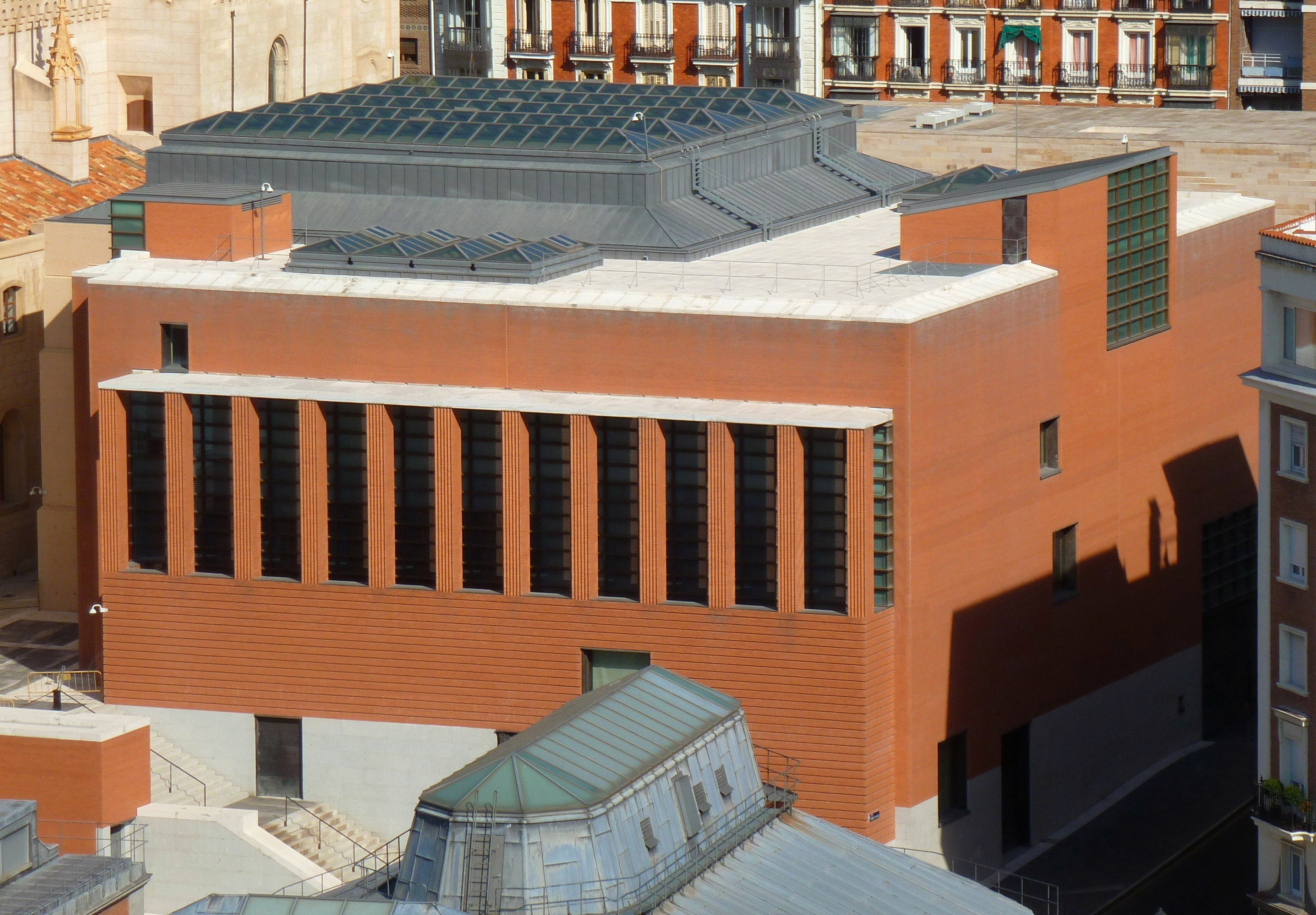 Jerónimos Cloister.